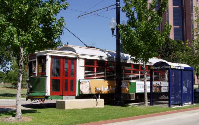 M-line Streetcar #186, also known as "The Green Dragon", at Cityplace station. Photo by Evan Jennings.